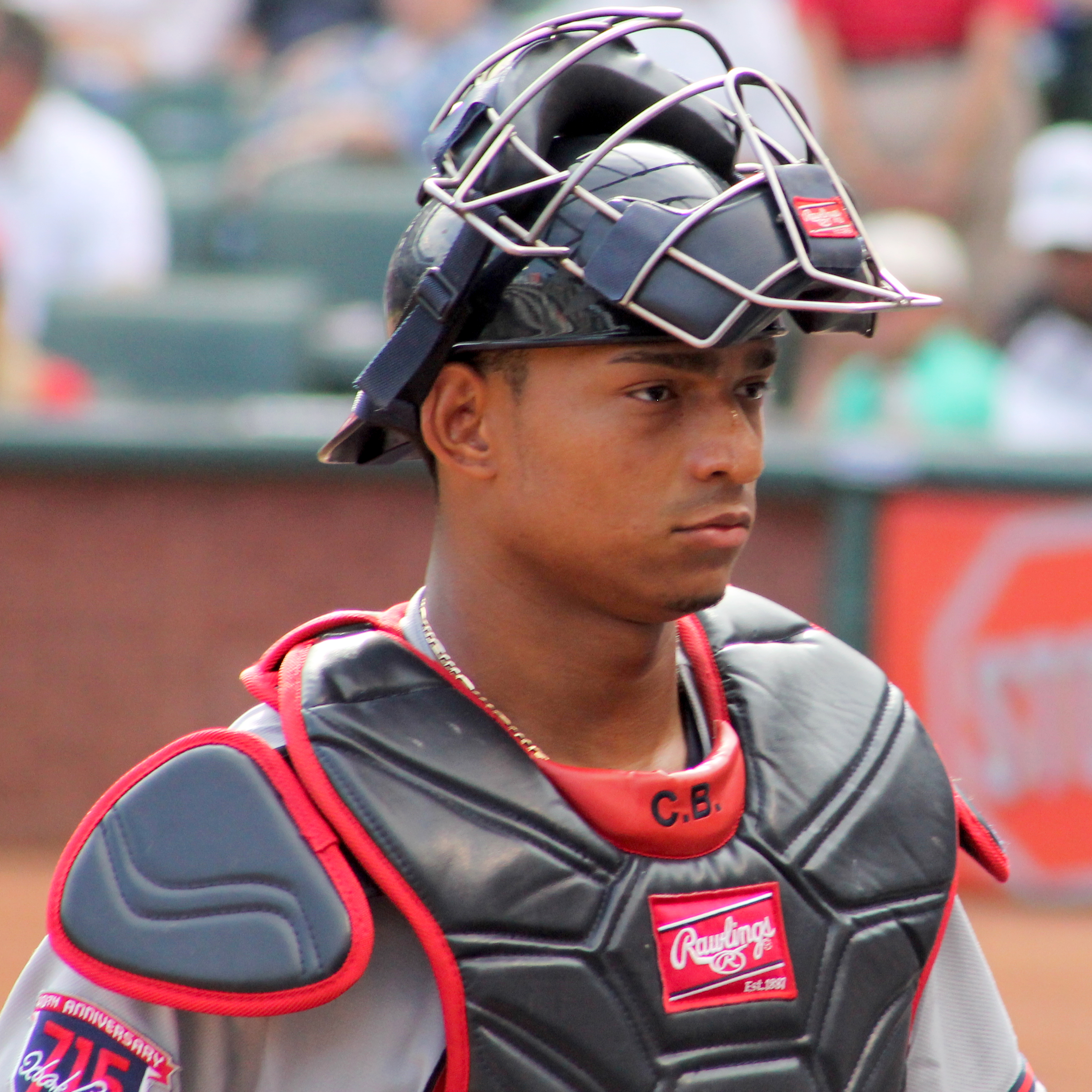 Professional baseball player Christian Bethancourt during a game in Arlington in September 2014.